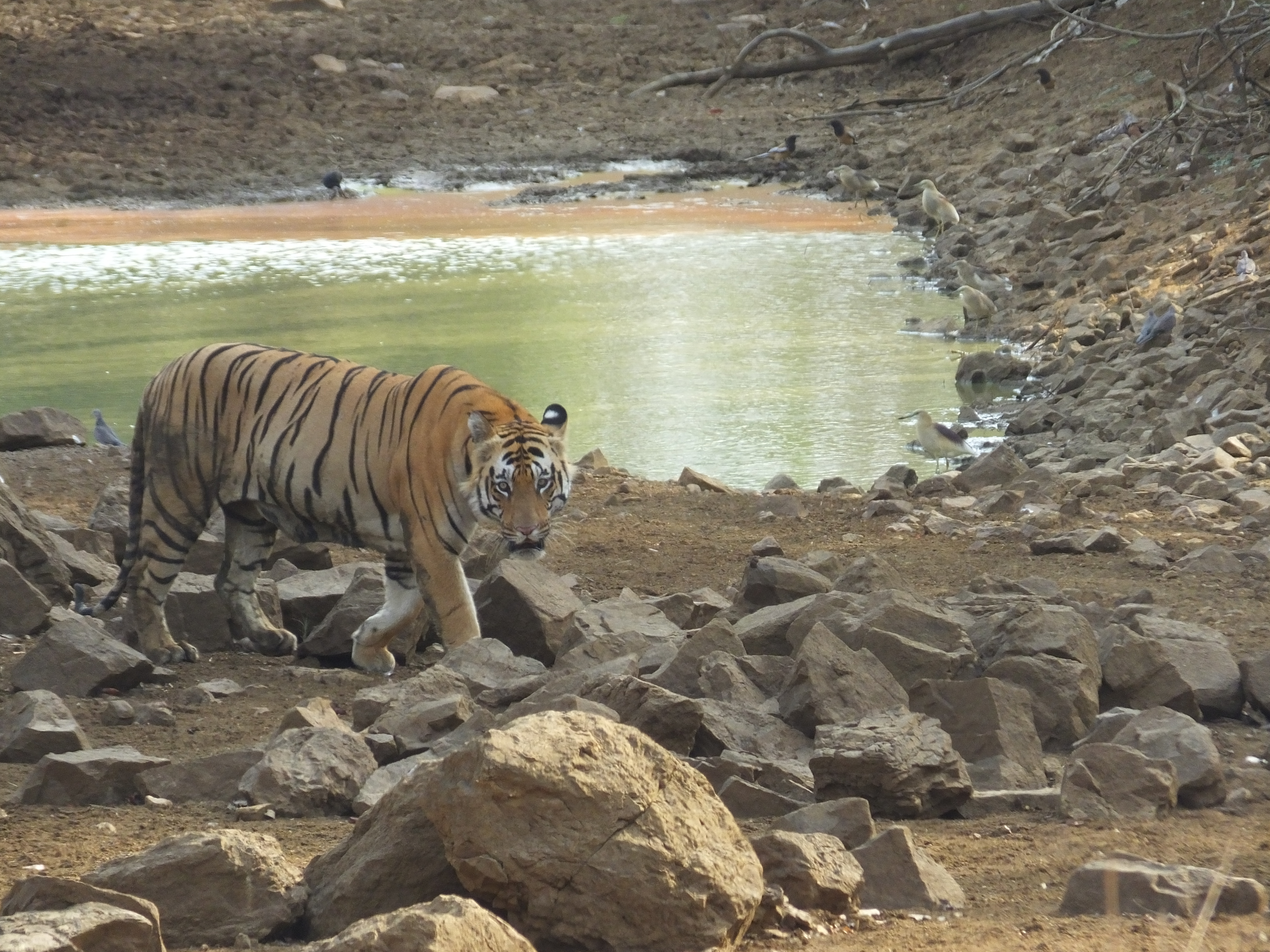 Matkasur the male tiger at Tadoba Andhari Tiger Reserve